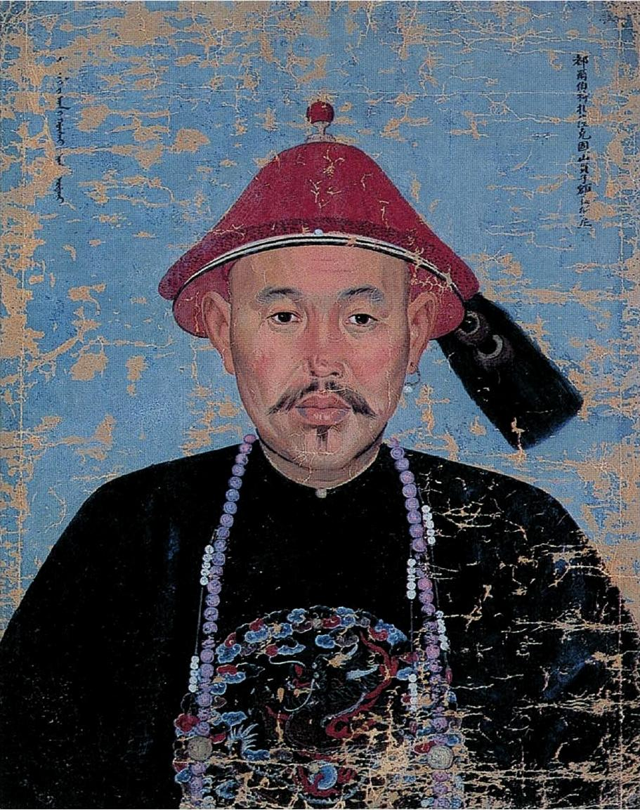 Erdeni, one of the leaders of the Mongolian Tribe Dorbet